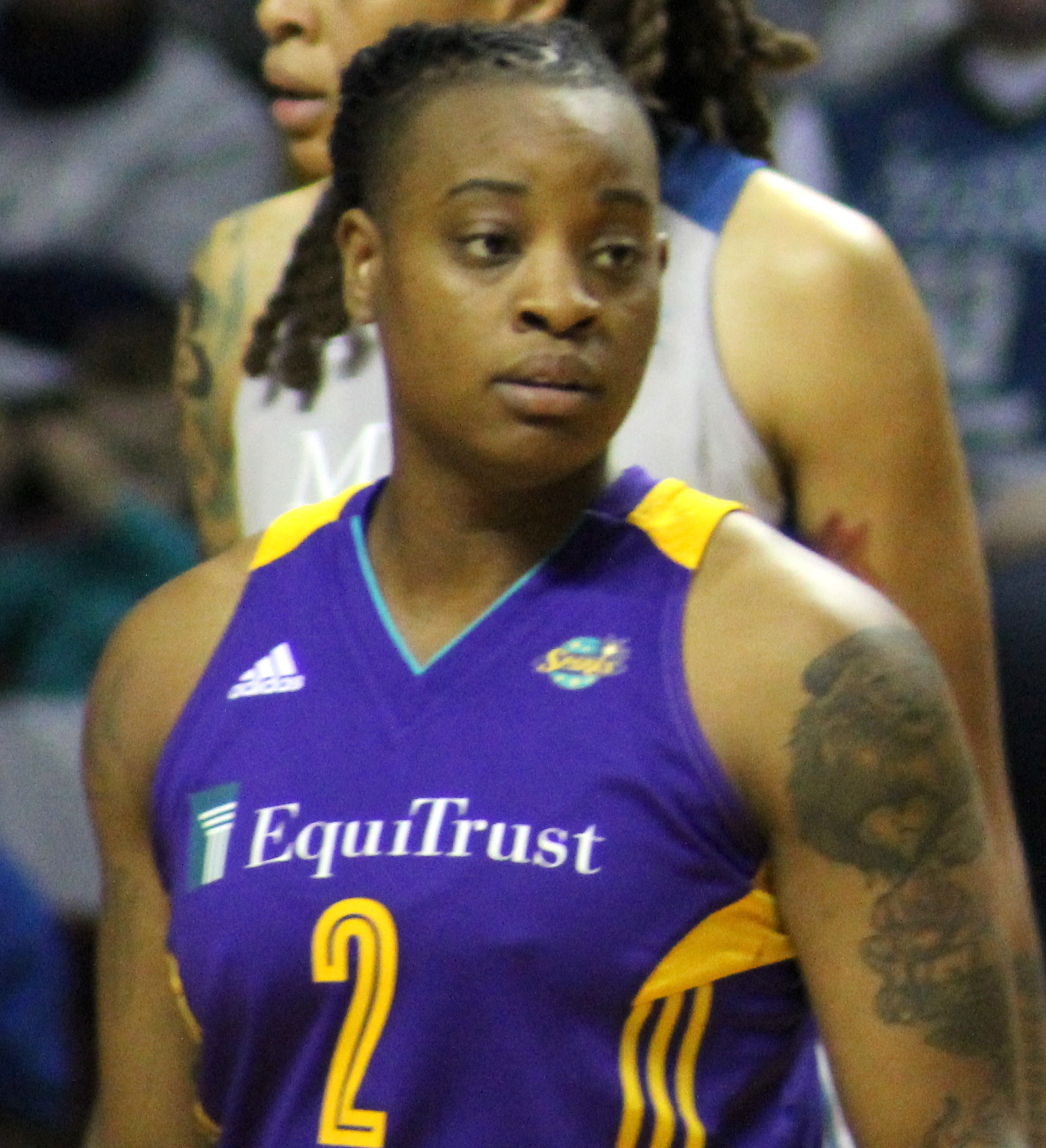 Riquna Williams of the Los Angeles Sparks in the 2017 WNBA Finals